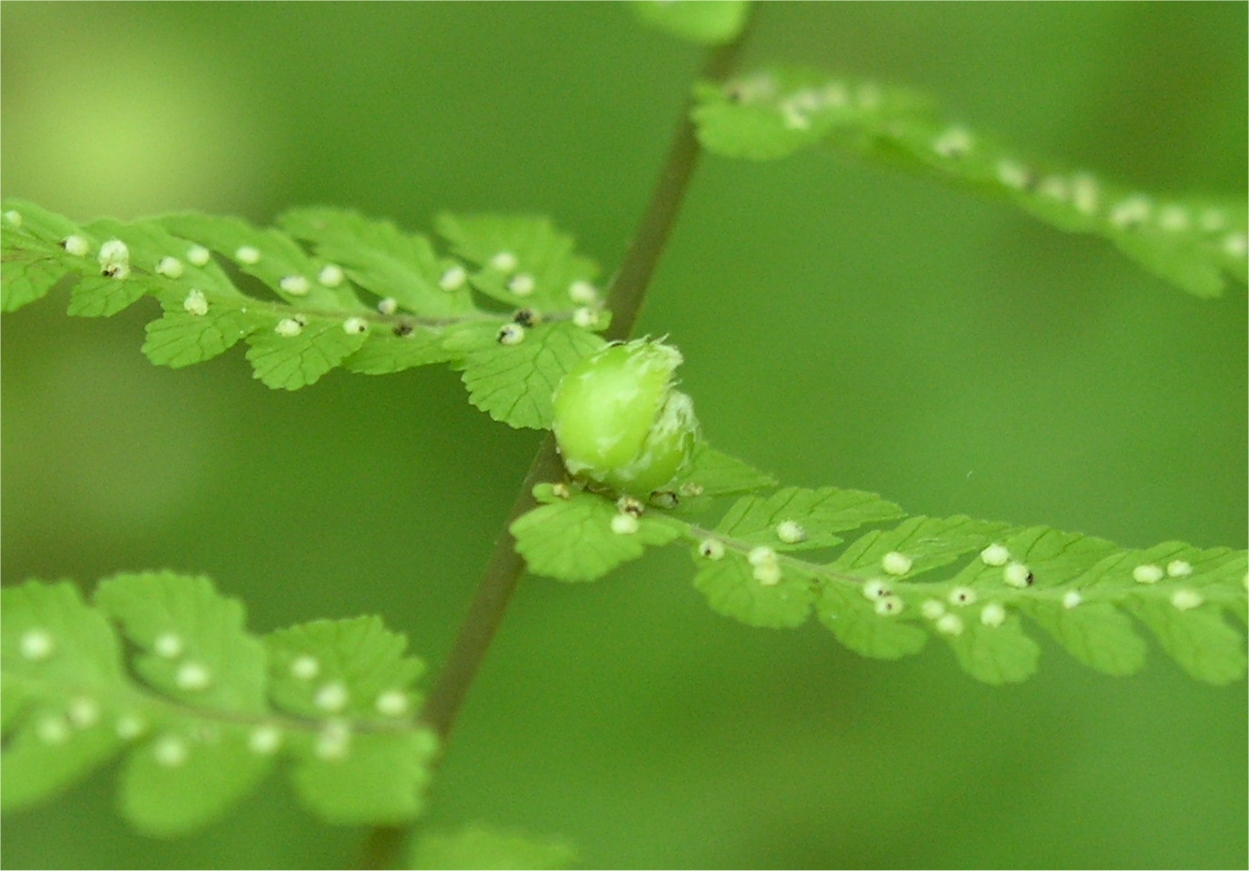 Detail of bulblet on Cystopteris bulbifera frond. Shades State Park, Indiana.